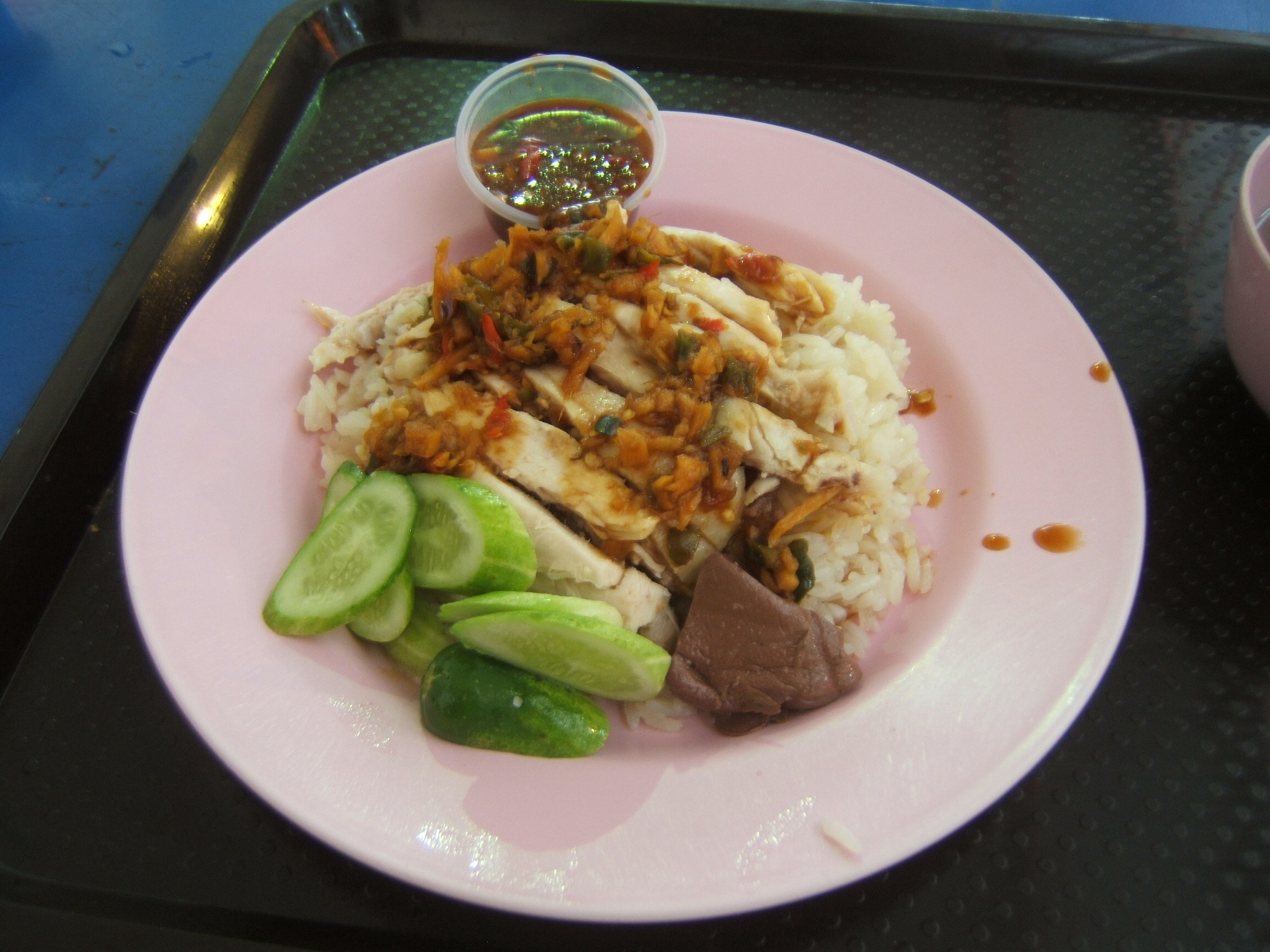 Kao mun gai, a Thai chicken dish with a ginger sauce, served over rice with cucumbers and blood tofu.